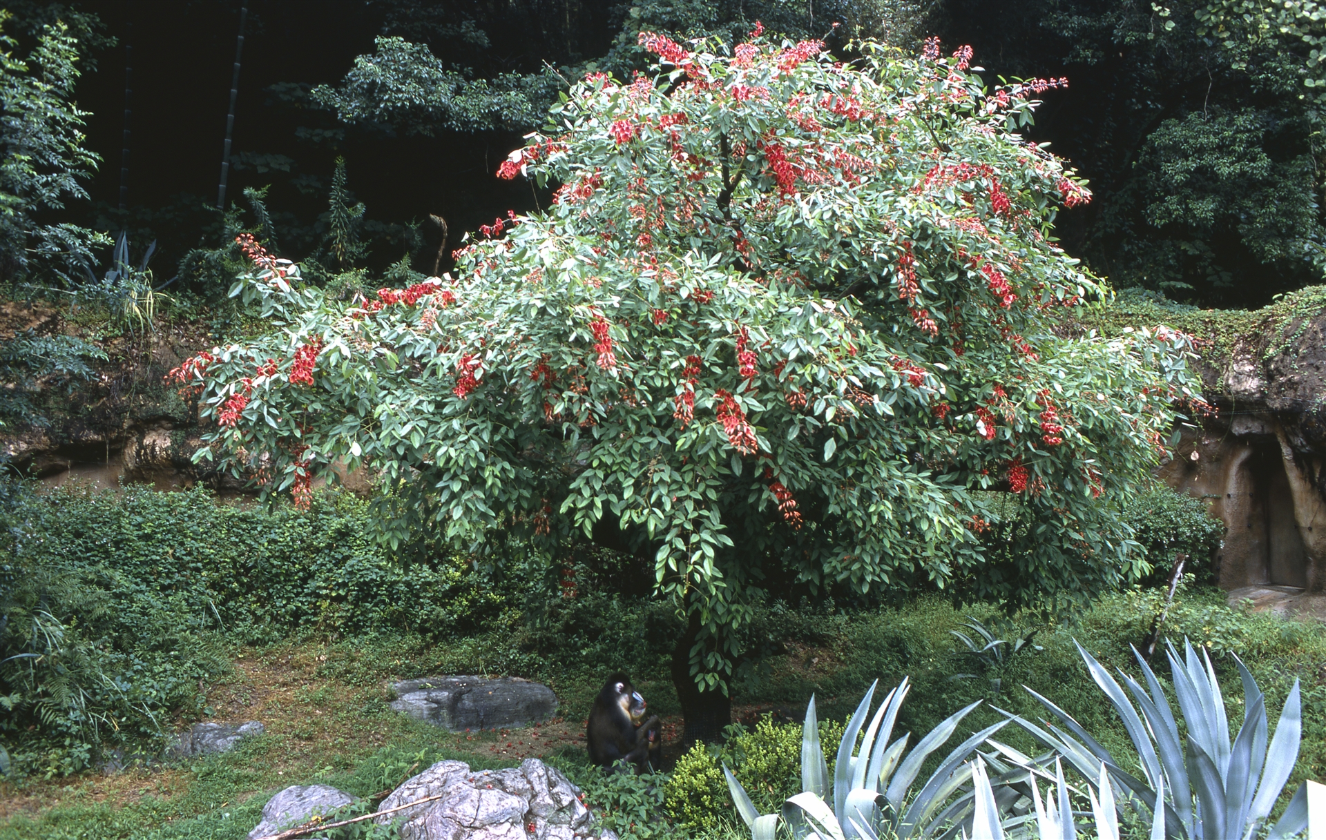 Noichi Zoological Park of Kochi Prefecture. Japan.